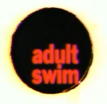 Original logo of Adult Swim.